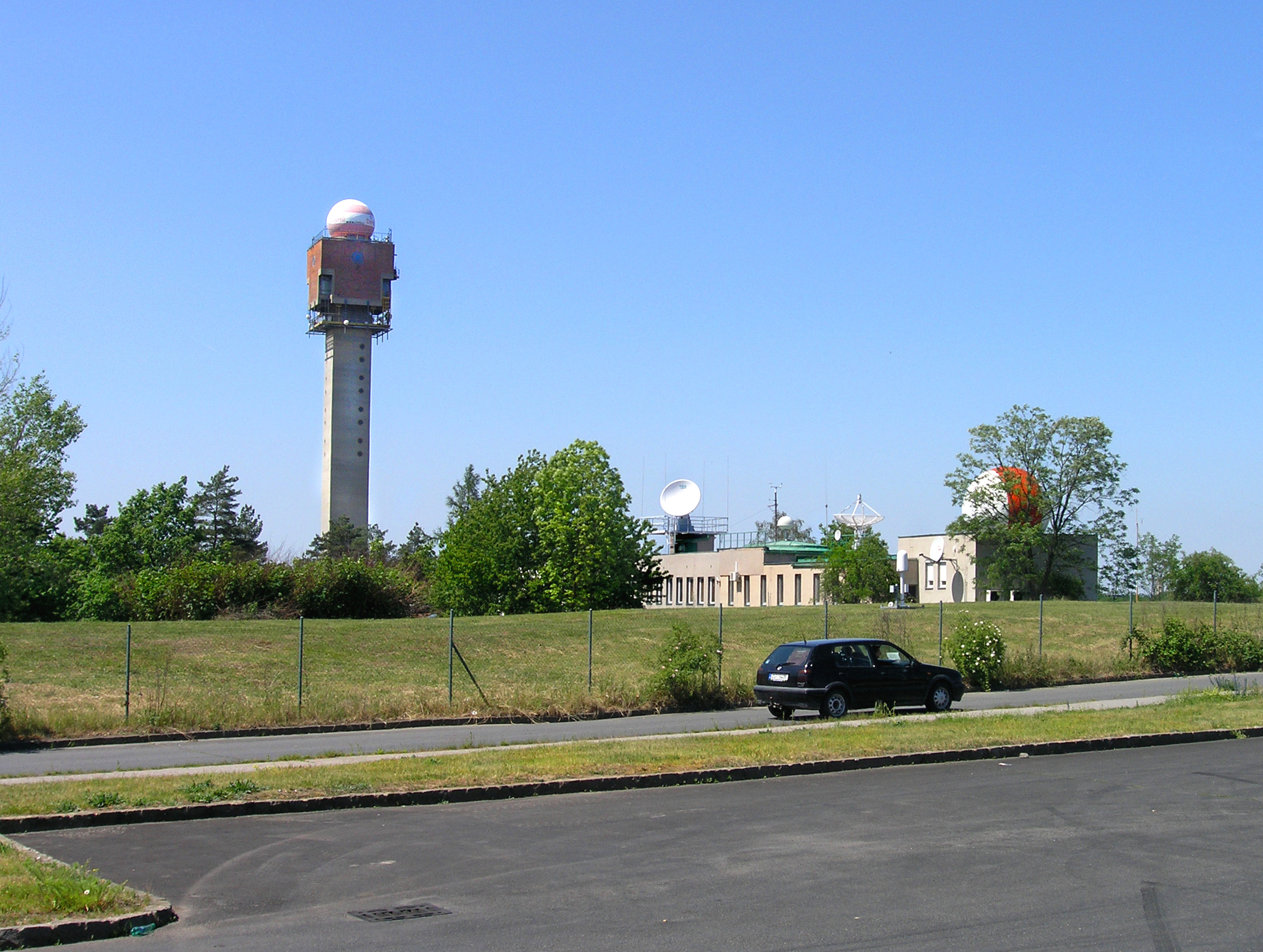 Meteorological observatory Libuš, Prague